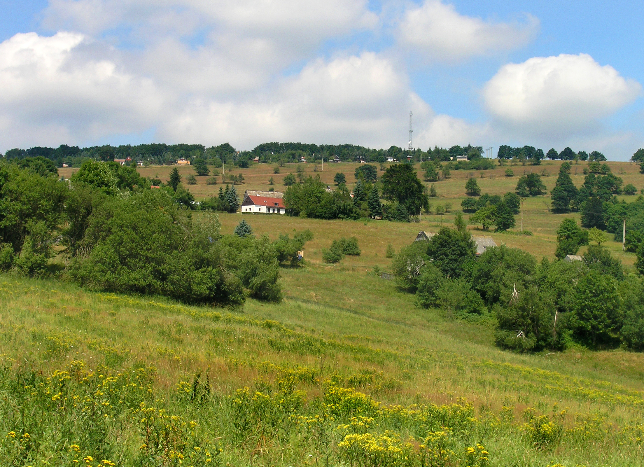 Dlouhá Louka, part of Osek town, Czech Republic